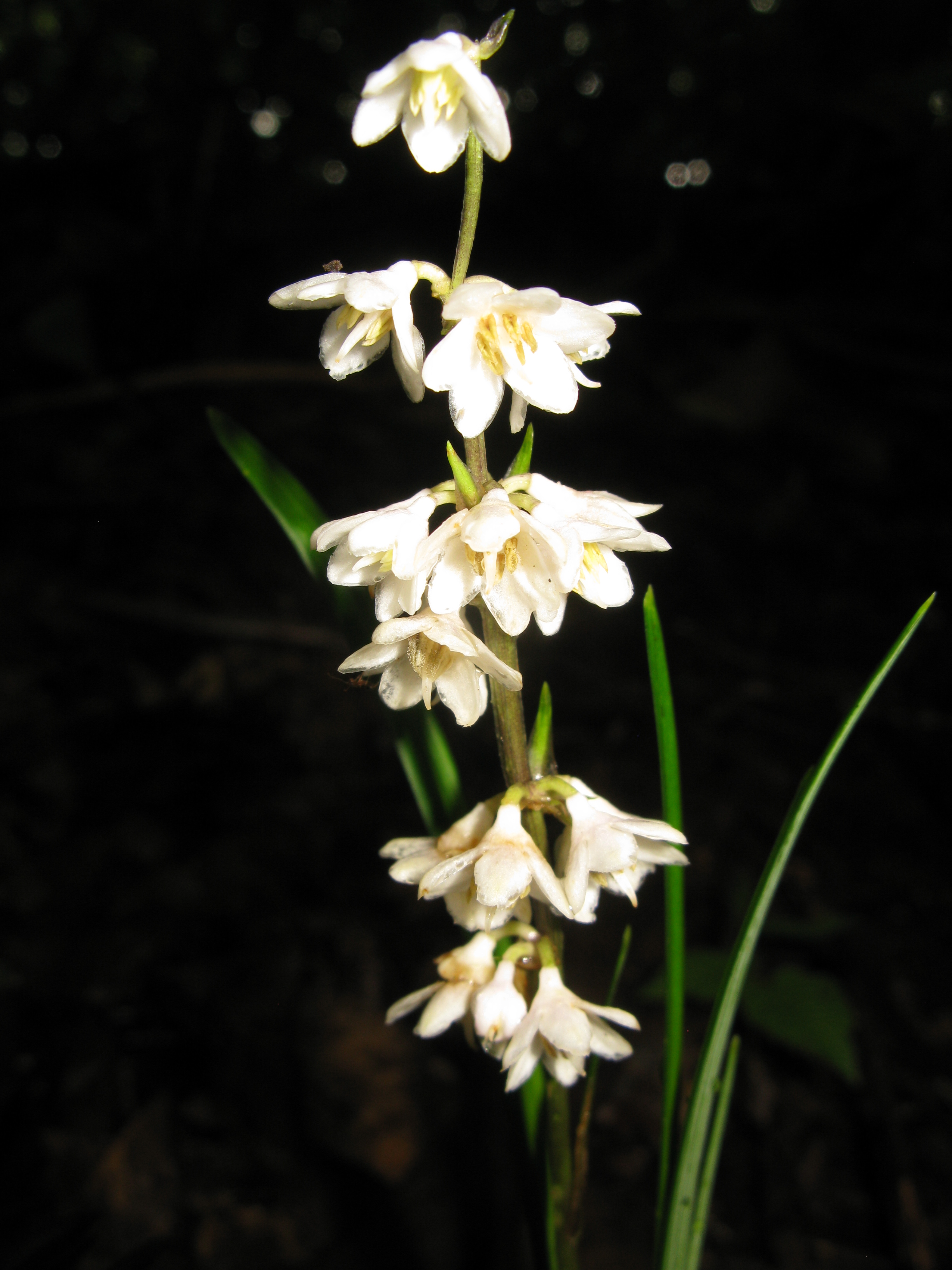 Ophiopogon planiscapus, Aizu area, Fukushima pref., Japan